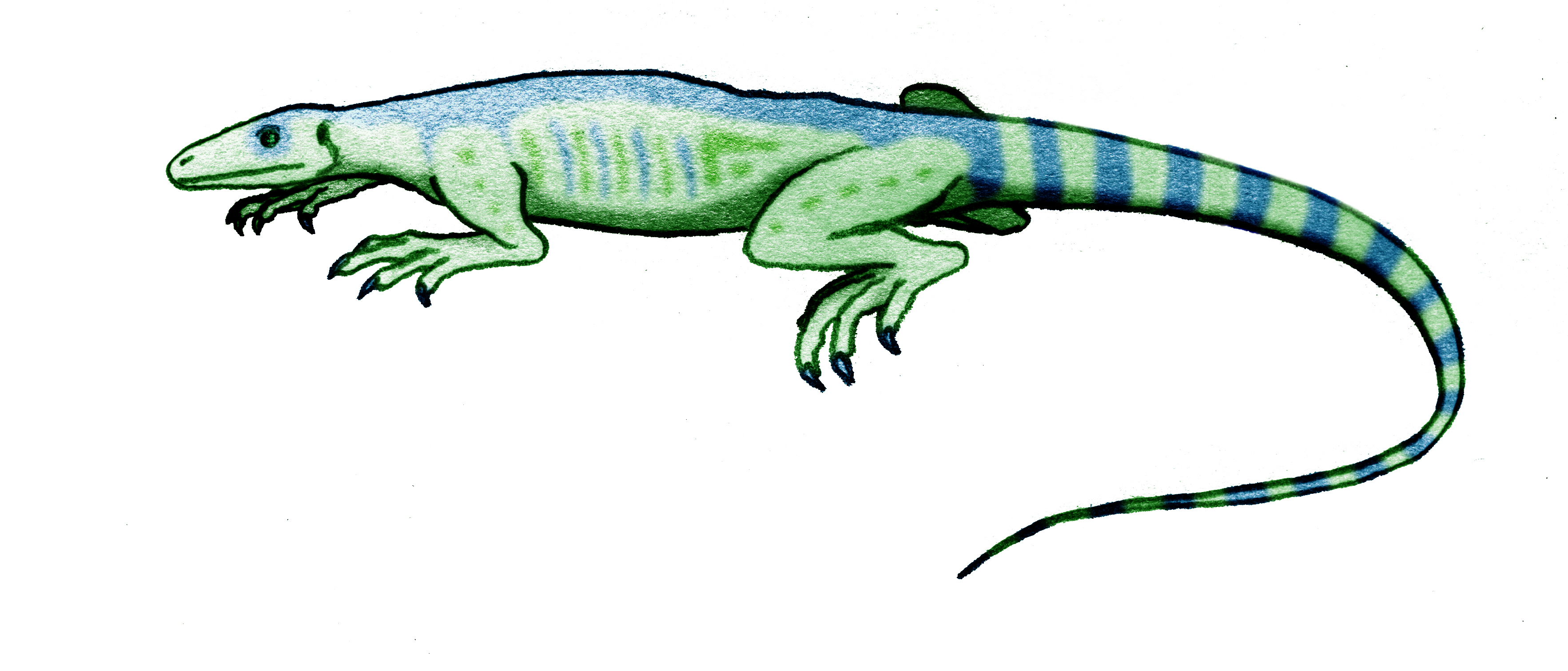 Restoration of Thadeosaurus, an extinct diapsid